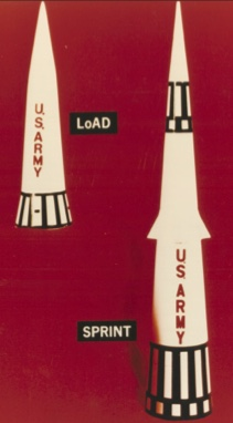 A comparison of the LoADS and Sprint ABMs, made during the LoADS effort. LoADS intended to intercept enemy warheads at very short range, typically around 40,000 feet. It was designed to fit within a MX missile shipping container so it could be installed randomly within an MX field.